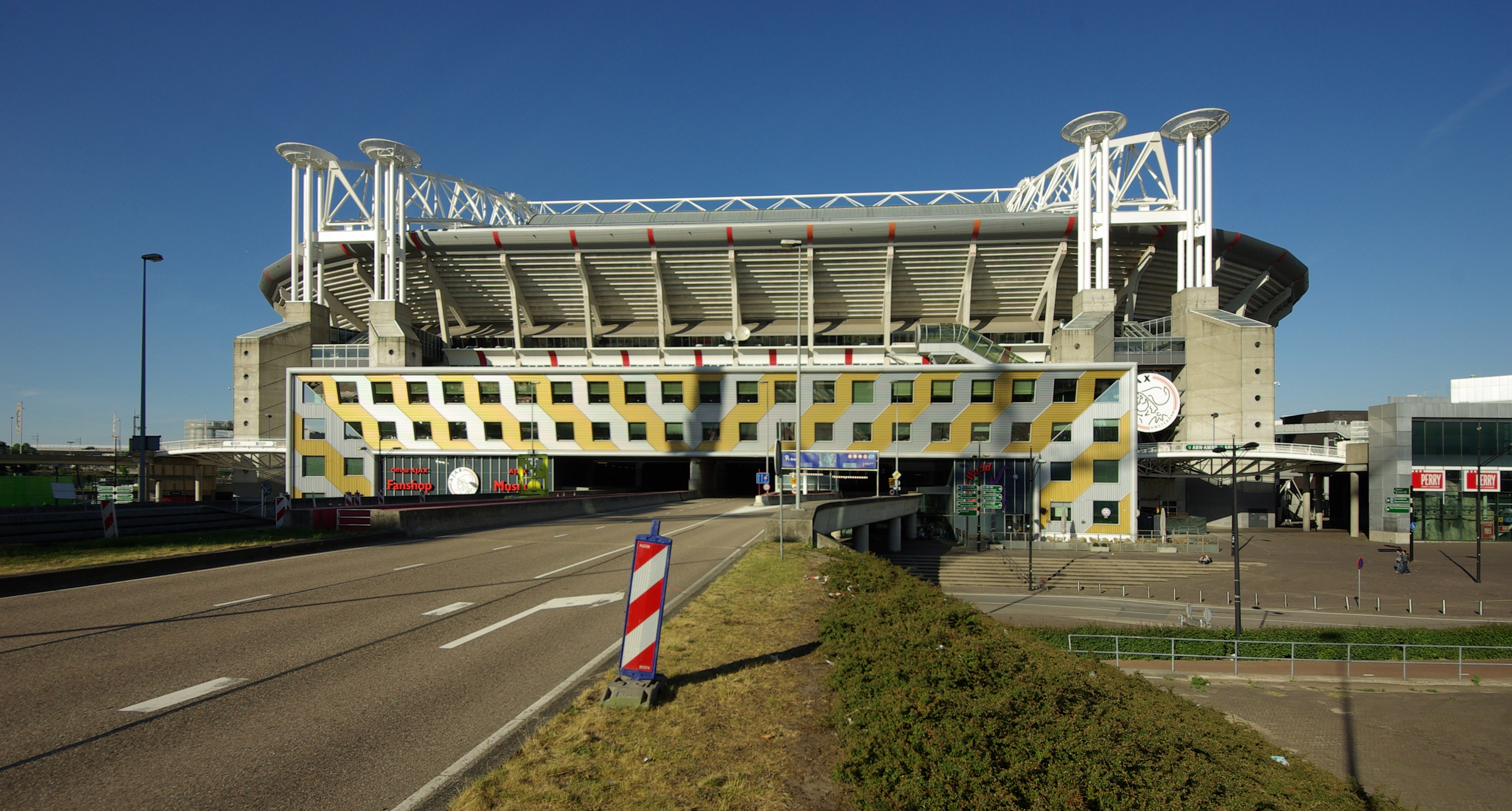 Johan Cruyjff Arena